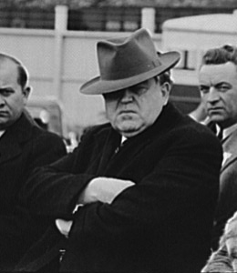 Shenandoah, Pennsylvania? John L. Lewis, center, at the stadium on the occasion of a district(?) meeting of the mine workers, seen among a crowd of people.